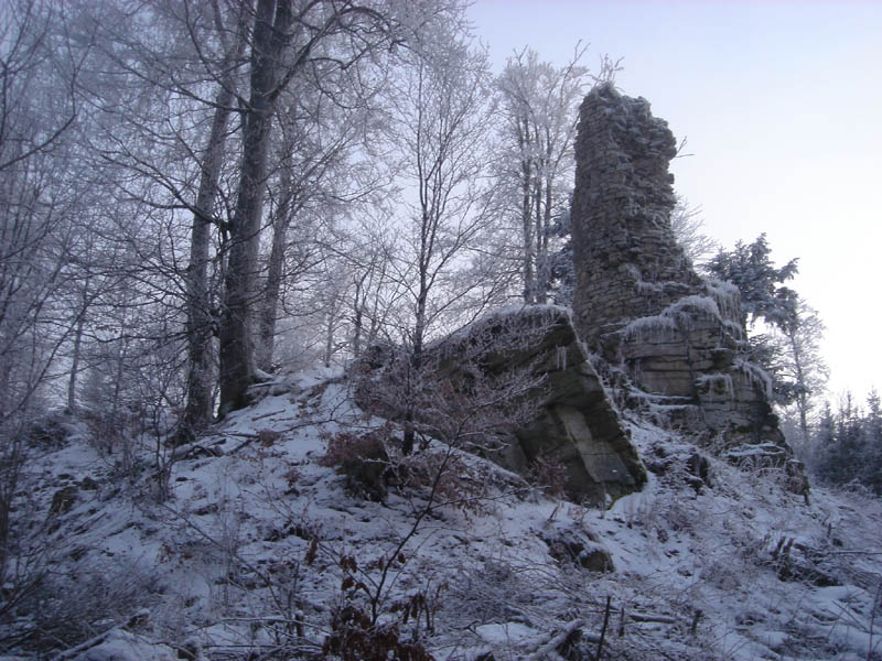 Castle Janštejn